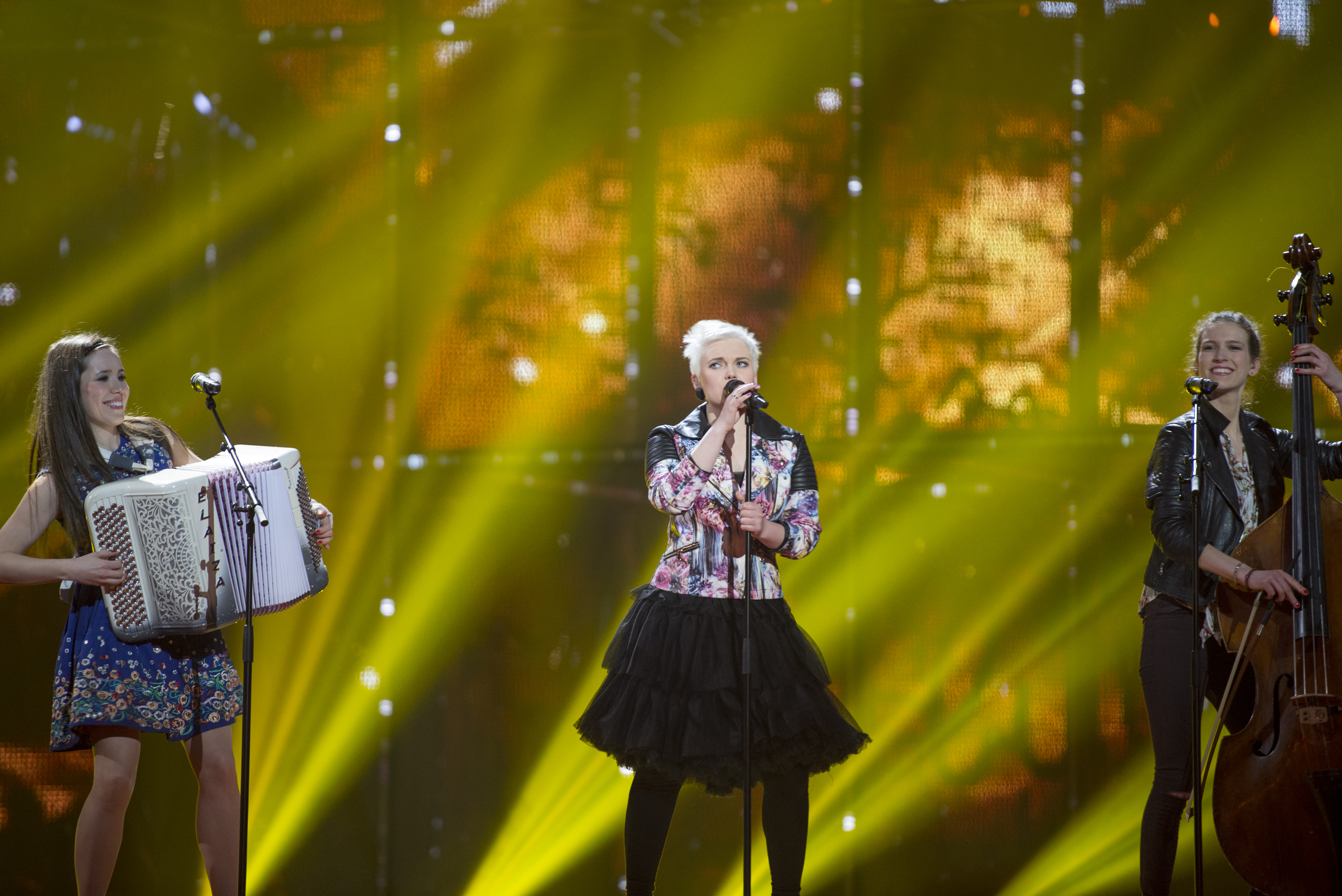 Elaiza representing Germany with the song "Is It Right" during the first dress rehearsal of the final of the Eurovision Song Contest 2014 Copenhagen. (Help translate this text)